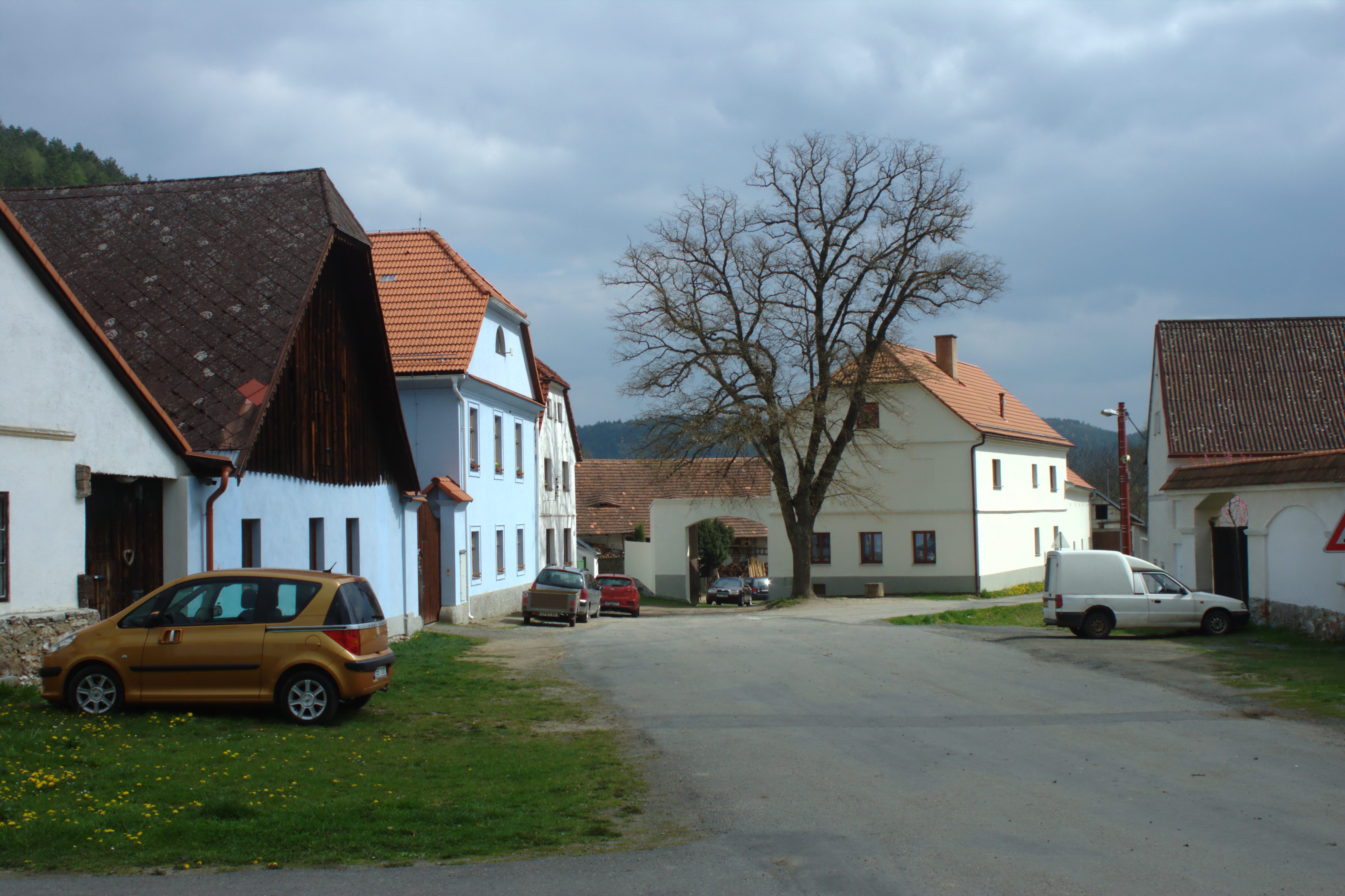 A common in the village of Dobršín, Plzeň Region, CZ